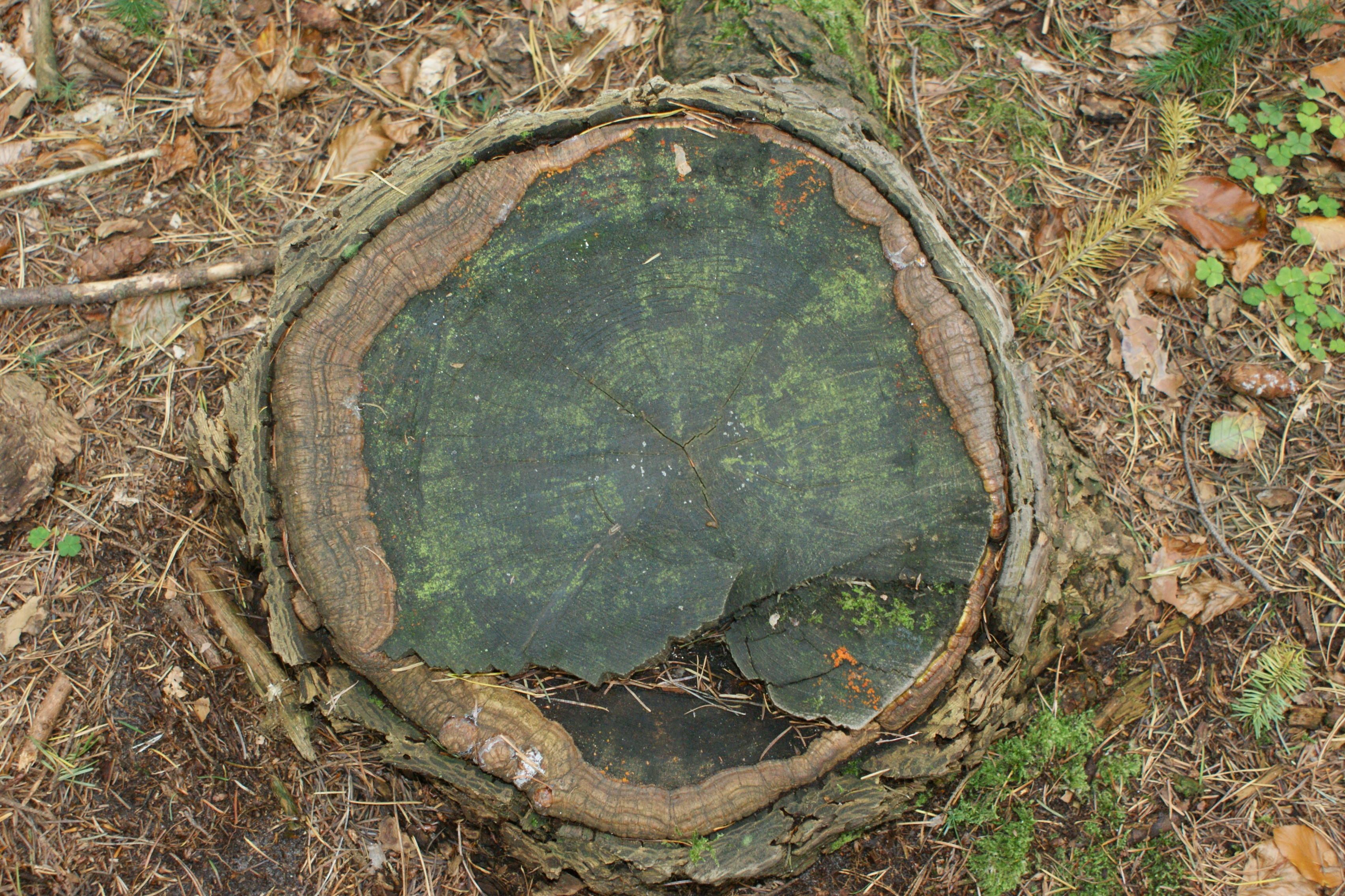 Callus on the stamp of Pseudotsuga menziesii